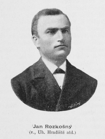 Portrait of Jan Rozkošný (1855-1947), Czech economist and politician.